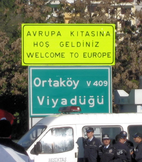 The "Welcome to Europe" roadsign encountered after passing the Bosphorus Bridge from the Asian side, Istanbul, Turkey